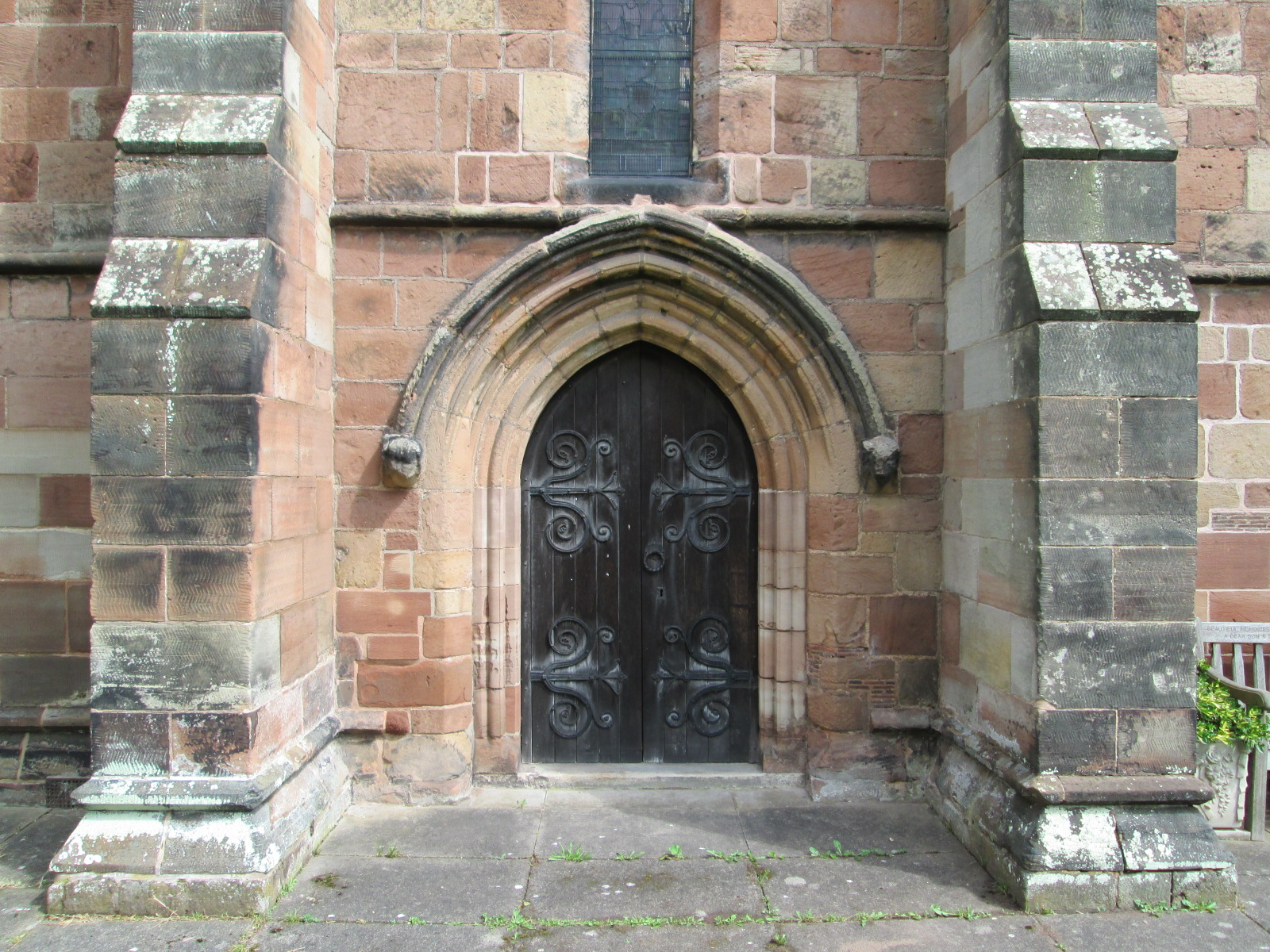 The Bishop's Door of Holy Trinity Church, Eccleshall. The exterior of the south side of the chancel.